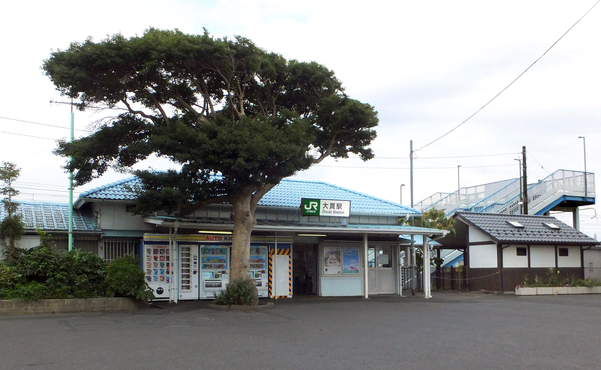 Ōnuki Station on the JR East's Uchibō Line in Futtsu, Chiba prefecture